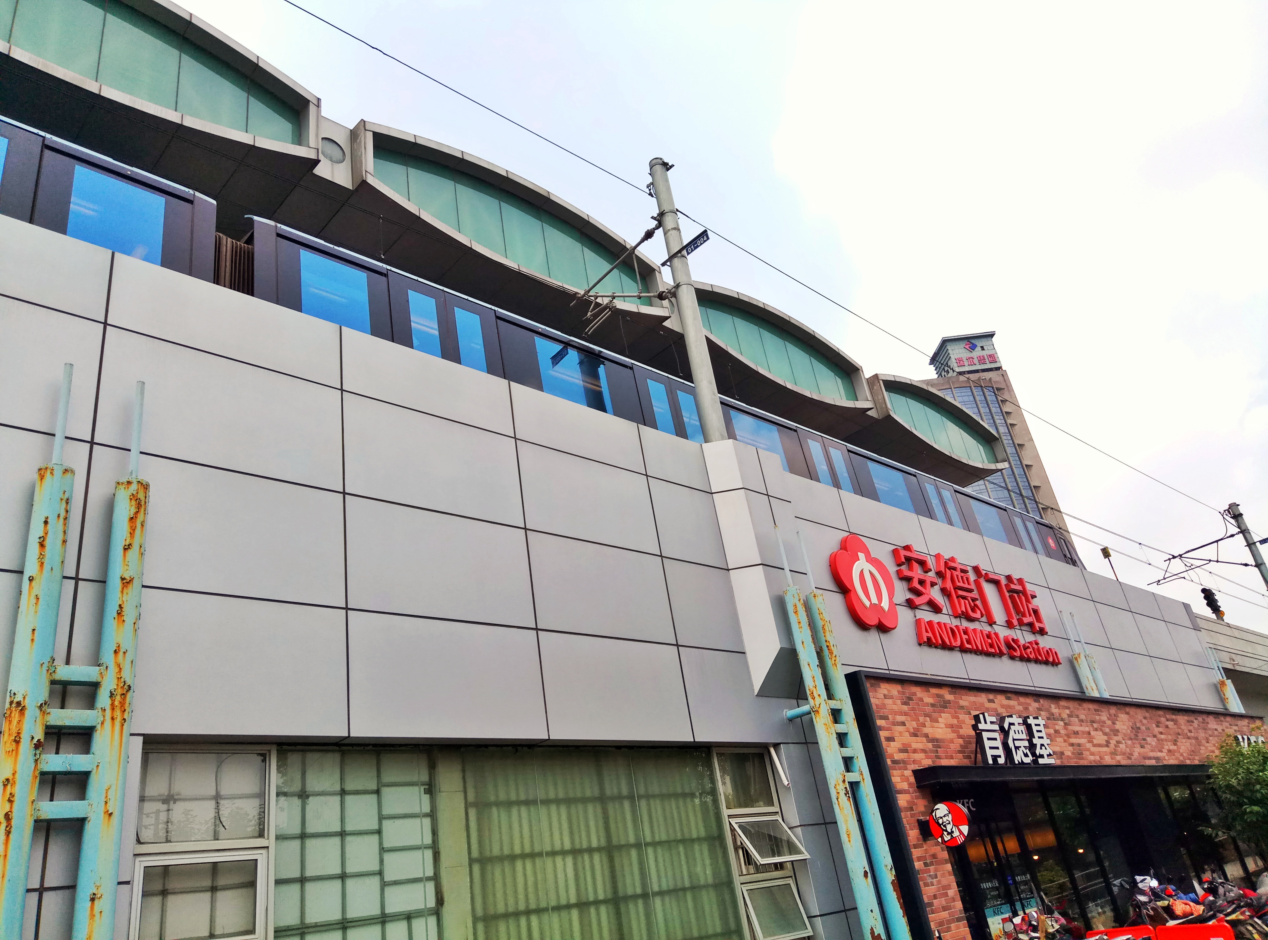 Nanjing Metro Andemen Station Outside